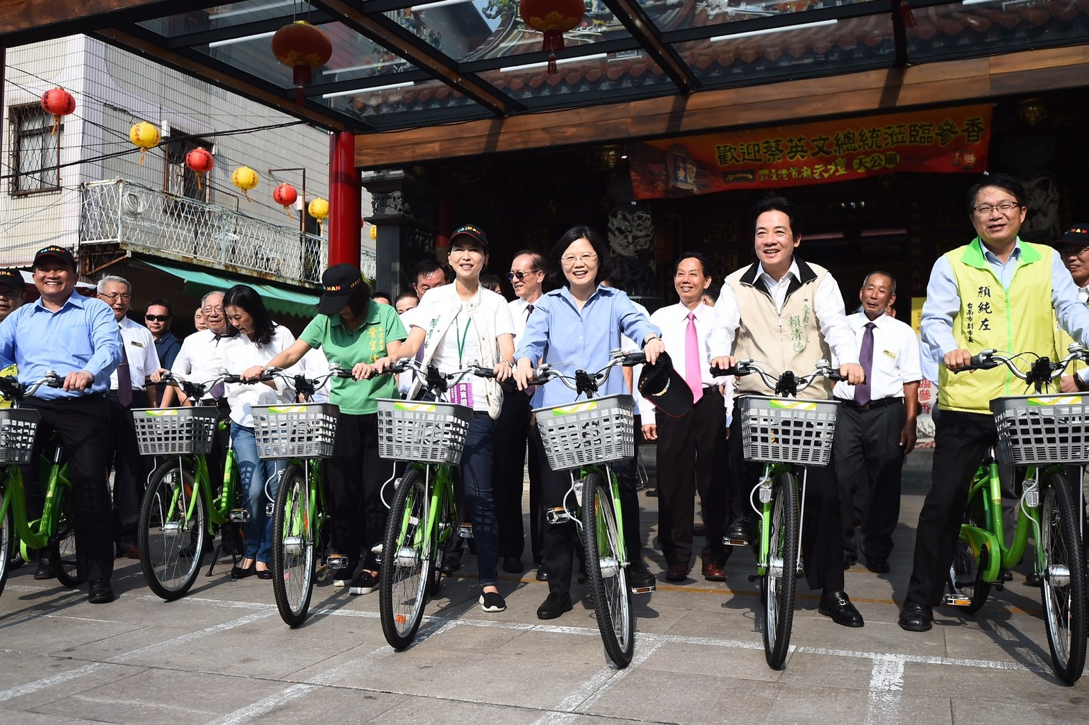 President Tsai and Tainan City Mayor Lai Ching-te ride T-Bikes, a public bicycle rental system in the southern Taiwan metropolis. (2016/08/06) 授權方式及範圍：中華民國總統府│政府網站資料開放宣告 Authorization Method & Scope: Office of the President, Republic of China (Taiwan) | Government Website Open Information Announcement